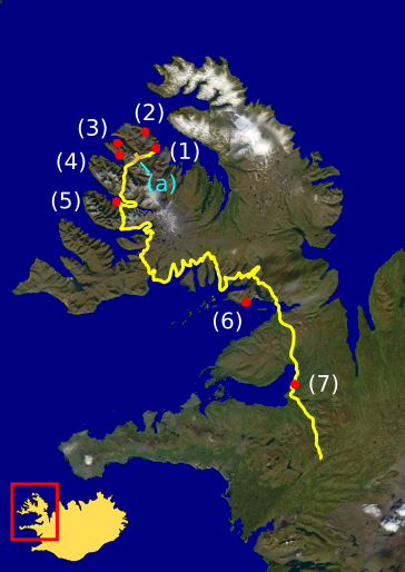 This map of Vestfjarðarvegur. Street Nr. 60, Iceland was created from OpenStreetMap project data, collected by the community. This map may be incomplete, and may contain errors. Don't rely solely on it for navigation. Location & Name for Flatery (4) & Þingeyri (5) Location & Name for Reykhólar (6) Location & Name for Búðardalur (7) Name for Breiðadals- og Botnsheiðar Tunnel (a) Iceland map color, used as small map Iceland, used as background